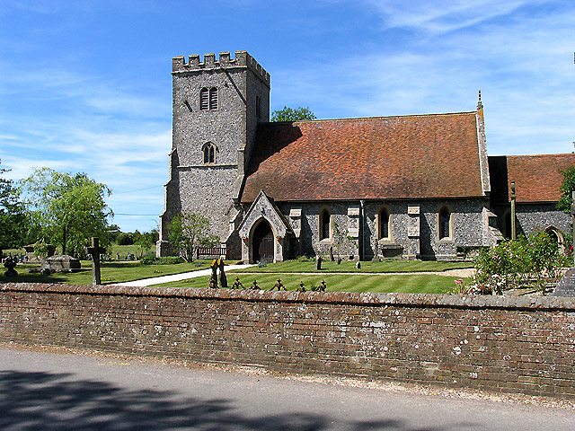 St Mary's and St Nicholas: Compton. The square is mostly farmland, some residences, a bridge and the church. The church is in the north eastern section of the square.